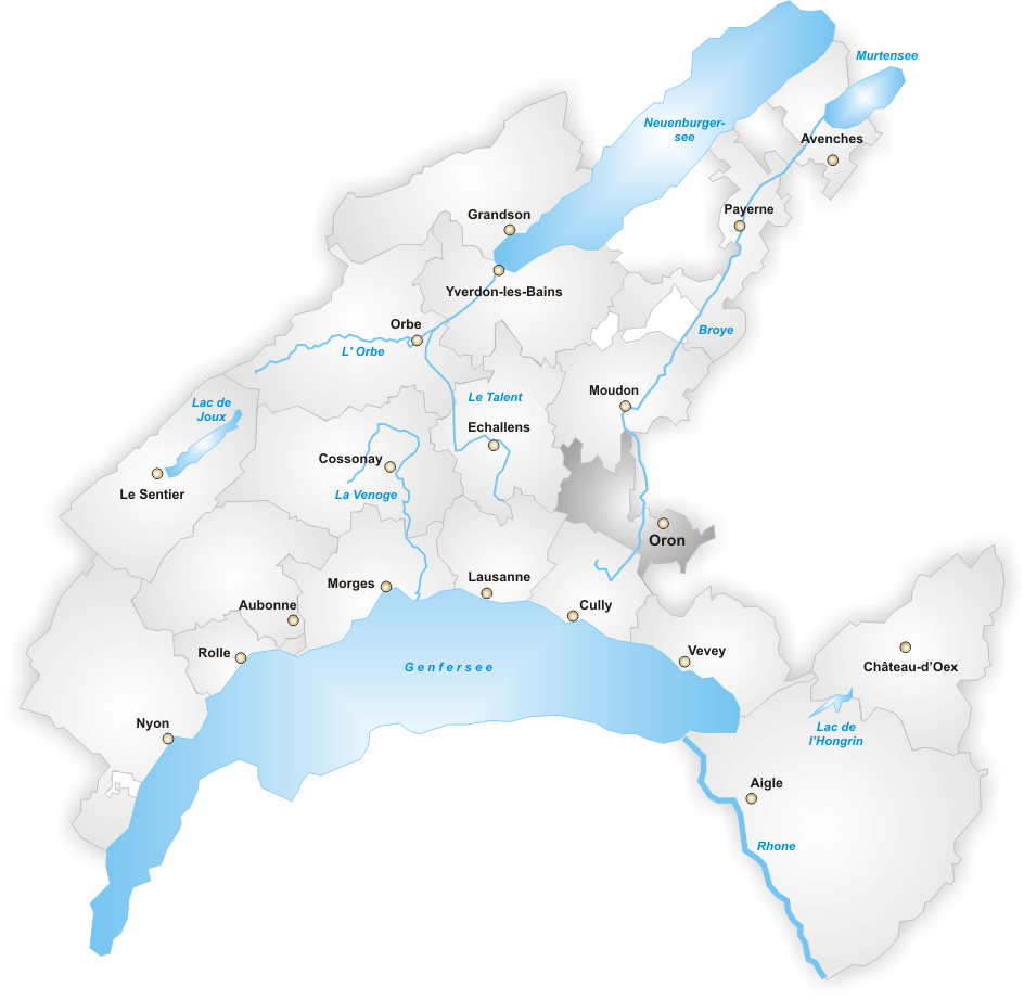 District Oron until 2007